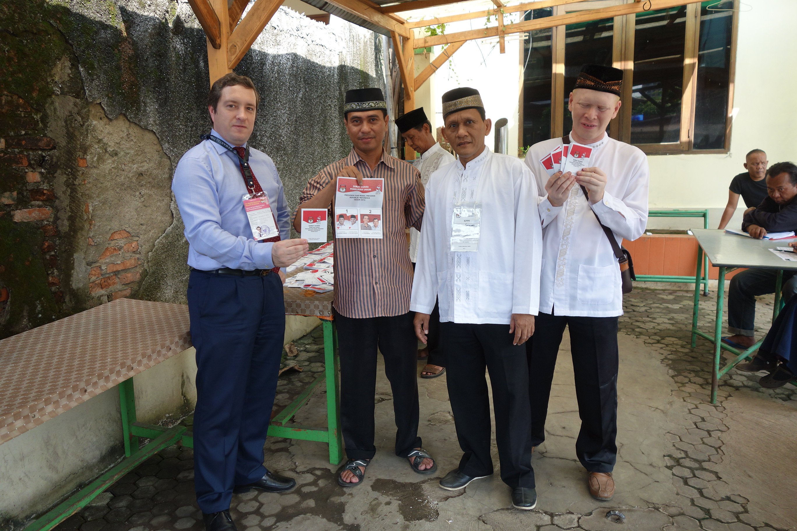 Foreign (Russian) observers at a polling station in Jakarta on the day of Presidential elections-2014